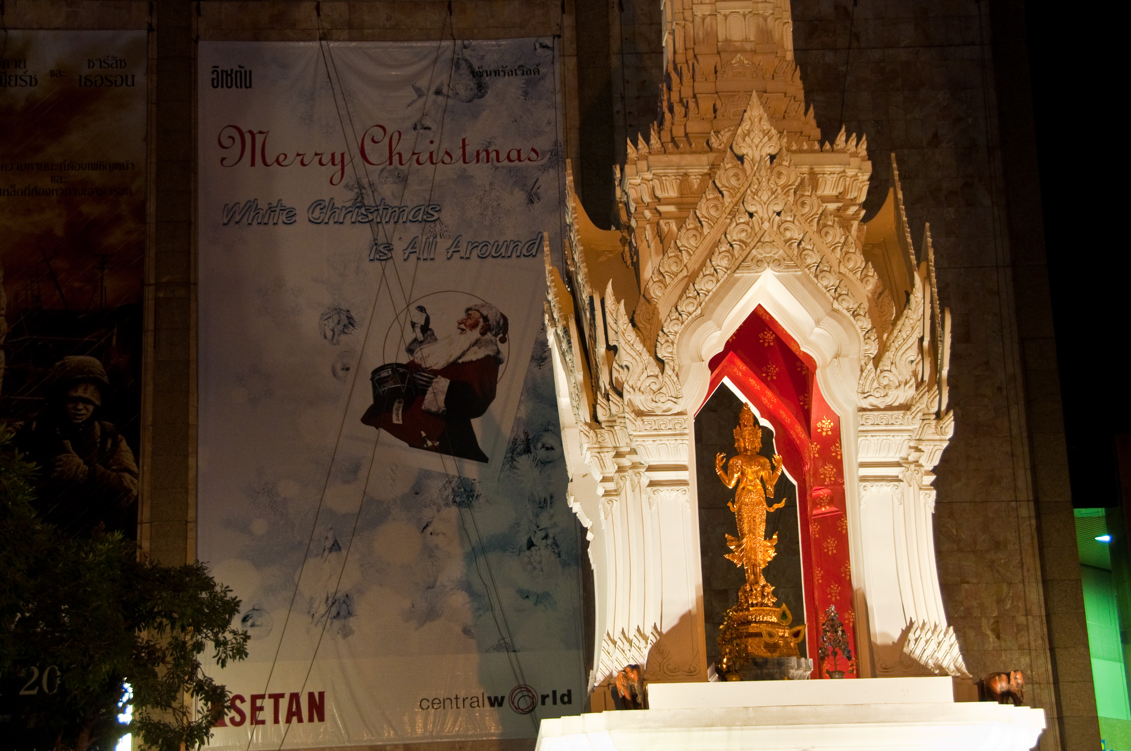 The Trimurti shrine at the Central World mall in Bangkok (with Merry Christmas banner in the background). This is a Hindu shrine where devotees come to pray for true love. The four-armed, two-headed and five-faced figure is a replica of an original from Ayutthaya. The shrine was erected in 1989.